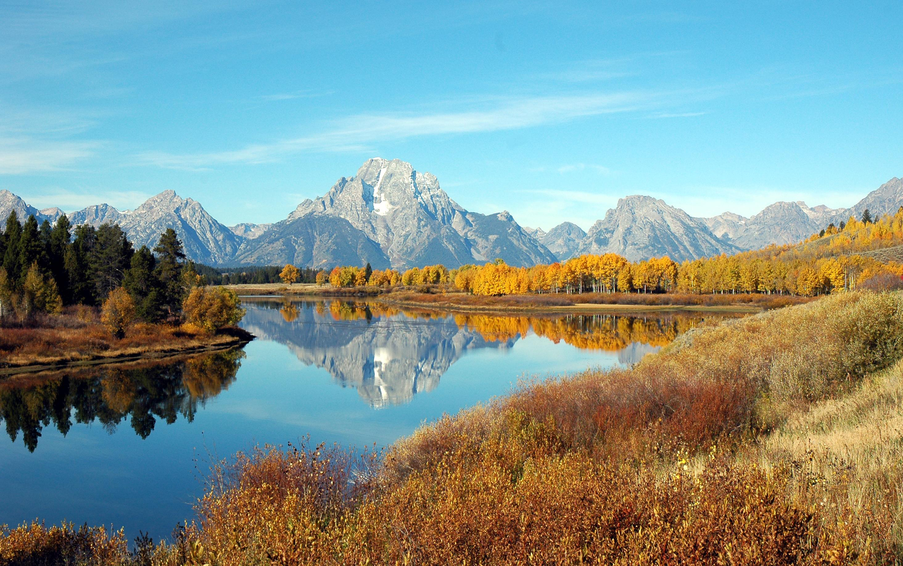 Grand Teton National Park near Jackson Lake Lodge